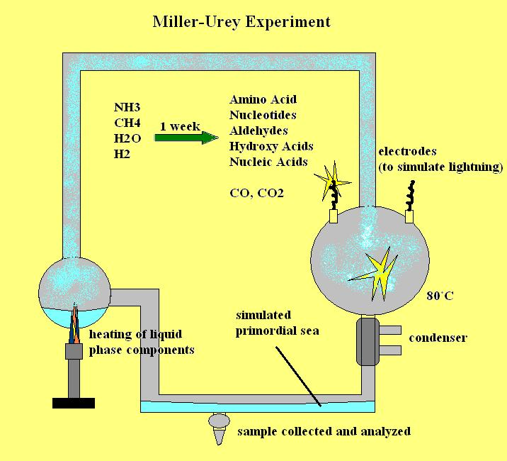 A schematic view of the famous Miller-Urey Experiment.